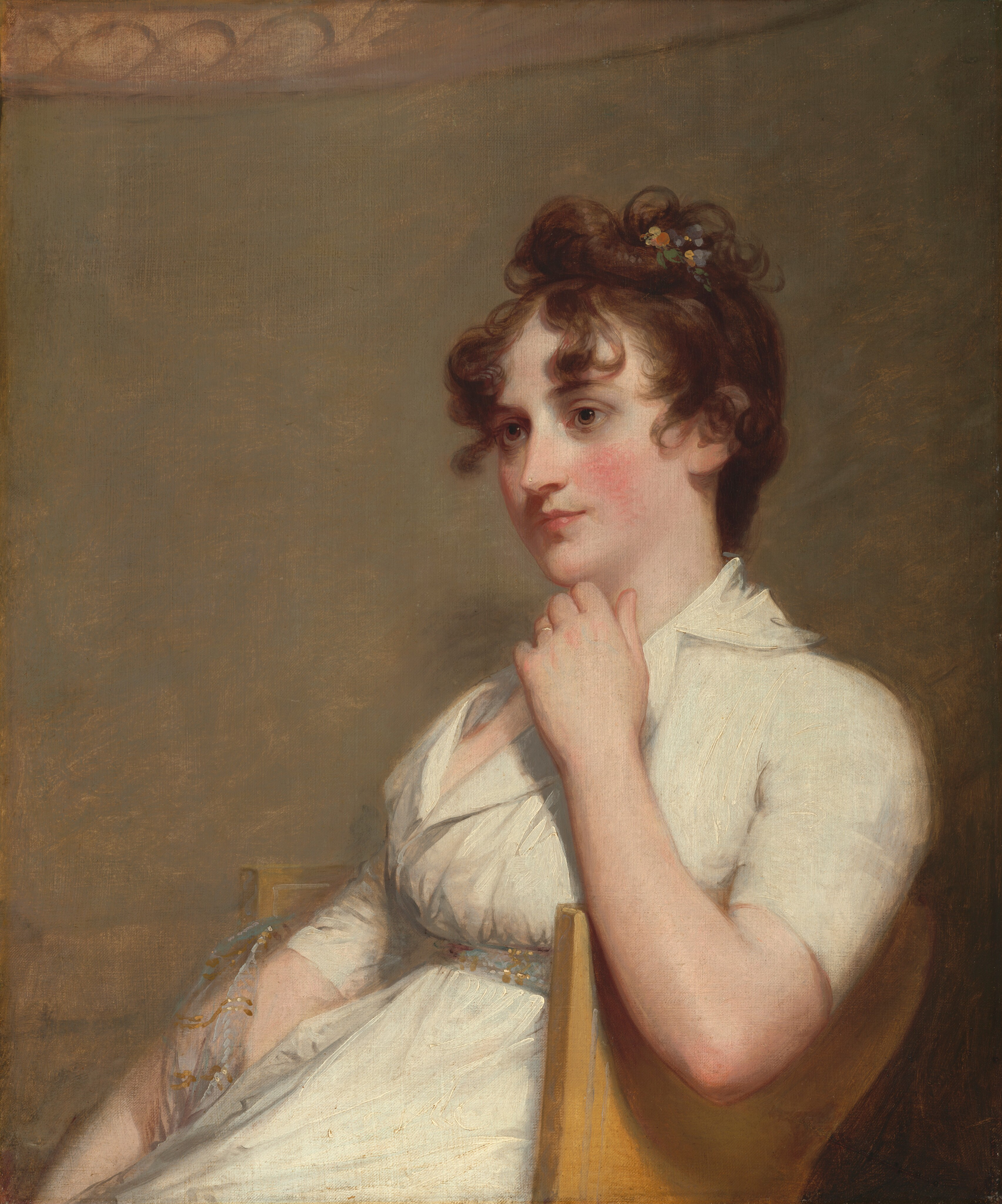 Eleanor Parke Custis Lewis (Mrs. Lawrence Lewis) as painted by Gilbert Stuart in 1804.